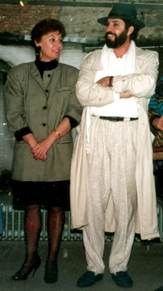 Manager and partner, Birgit Vogt and Zoro Mettini.